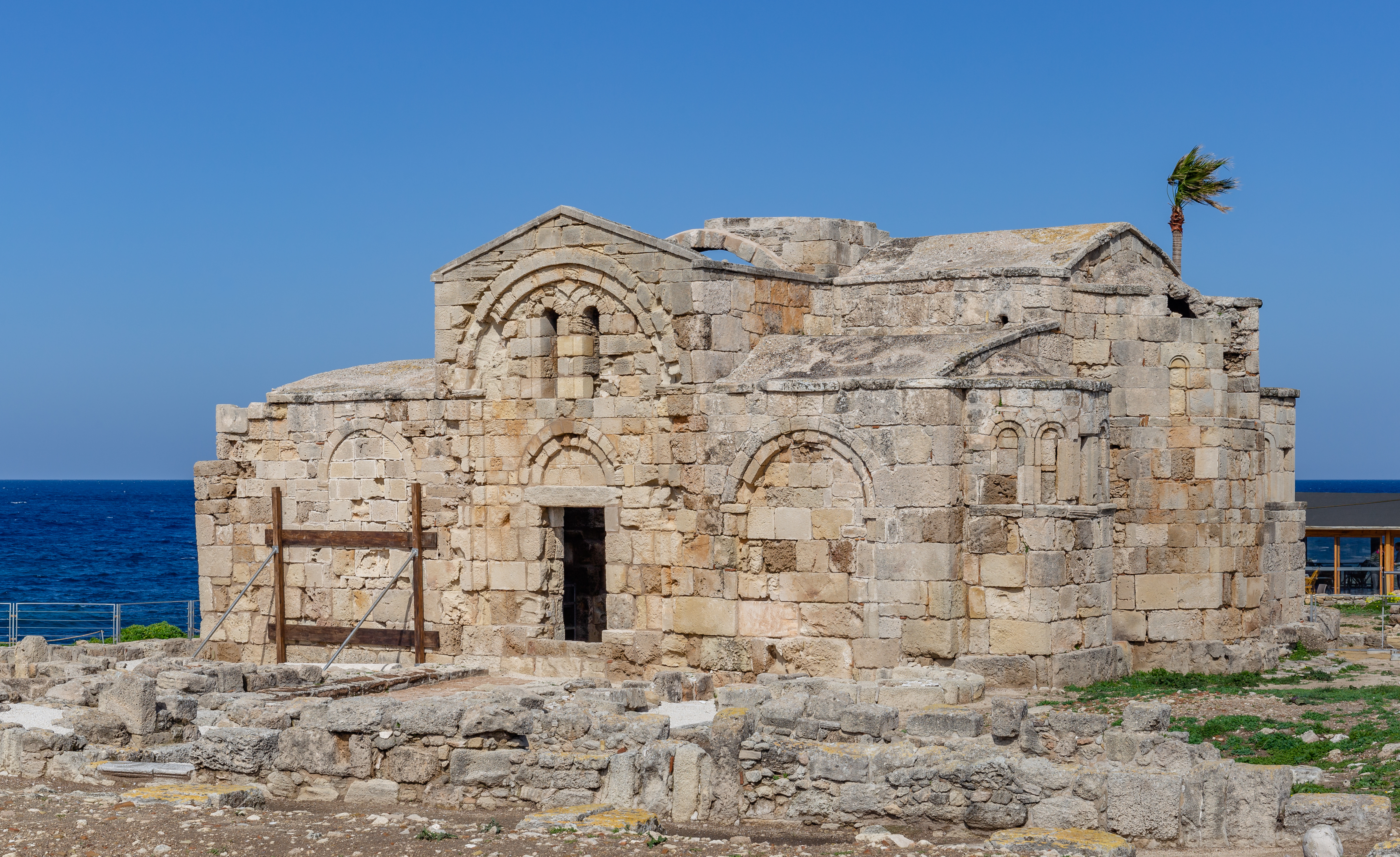 Saint Filion Church, Karpaz, Northern Cyprus